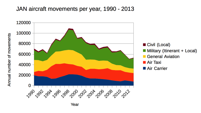 A graph of all aircraft movements at Jackson-Evers international airport. Data from Federal Aviation Administration (FAA) Air Traffic Activity System (ATADS).